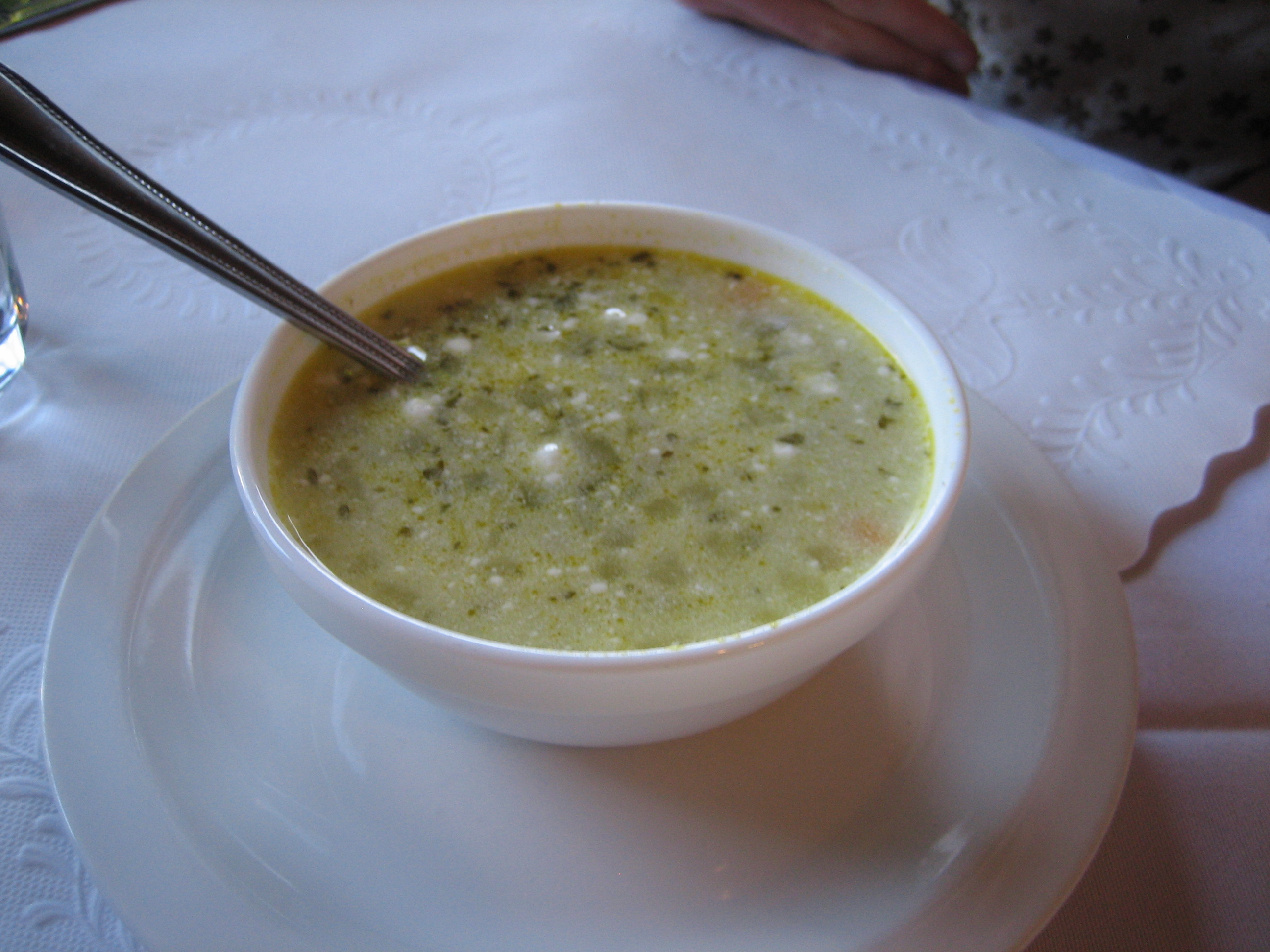 Kidney and pickle soup with barley. At Cinderella.